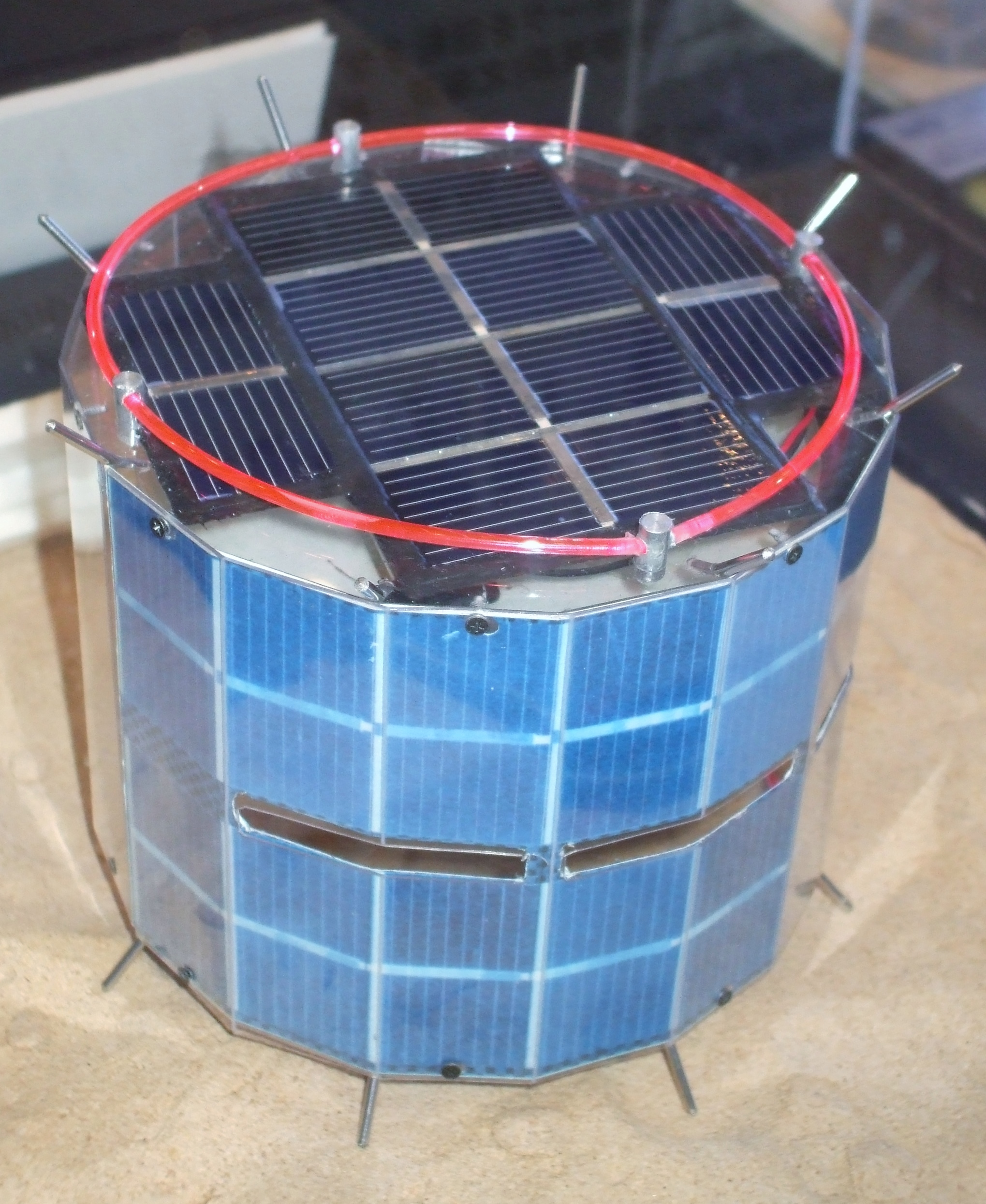 MINERVA model, taken at Institute of Space and Astronautical Science in Chūō-ku, Sagamihara